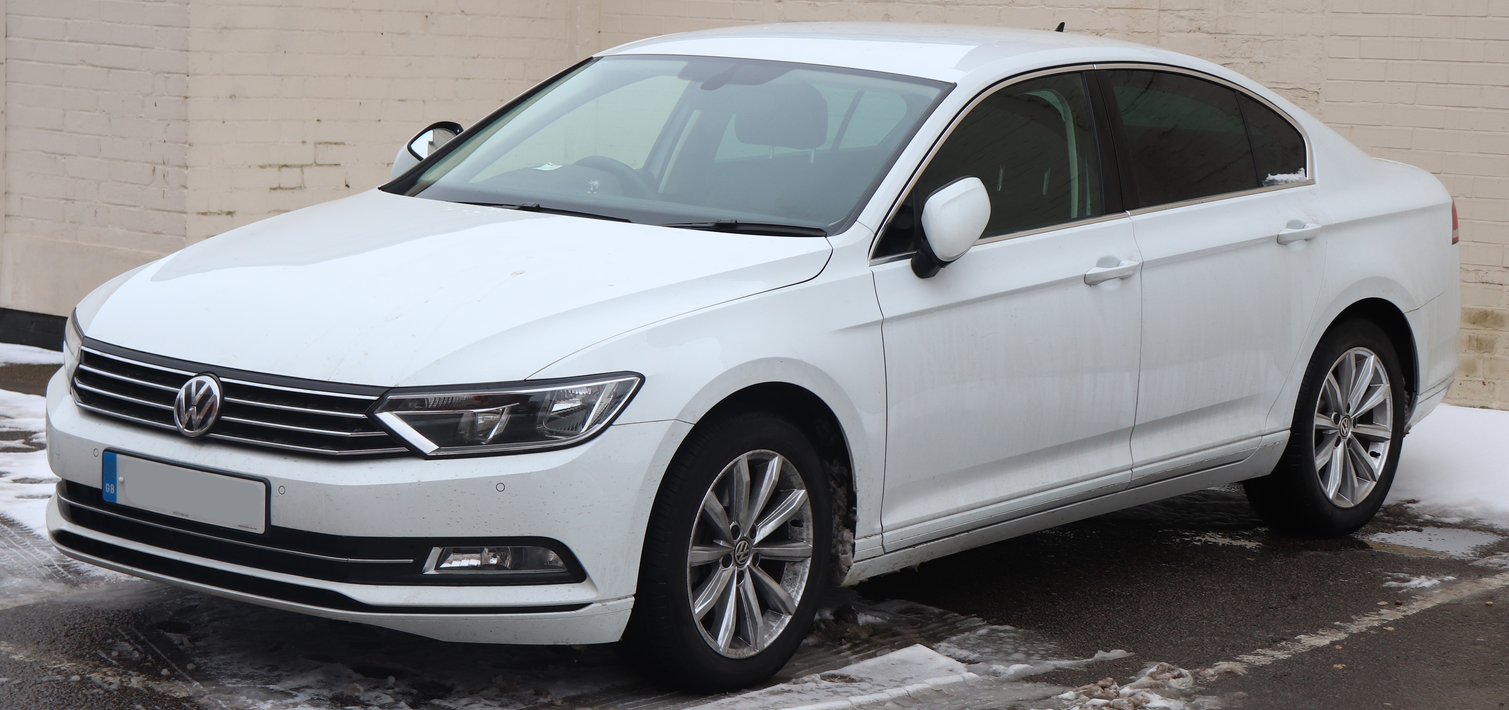 2017 Volkswagen Passat SE Business TDi BM 2.0 Taken in Leamington Spa